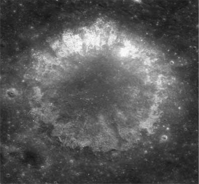 Sampson lunar crater - LROC NAC image M185998831RC (note: original NAC image is inverted vertically in link)